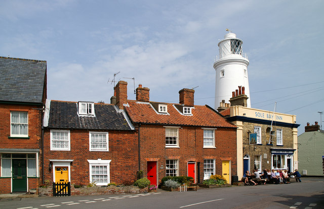 The Sole Bay Inn and Southwold lighthouse